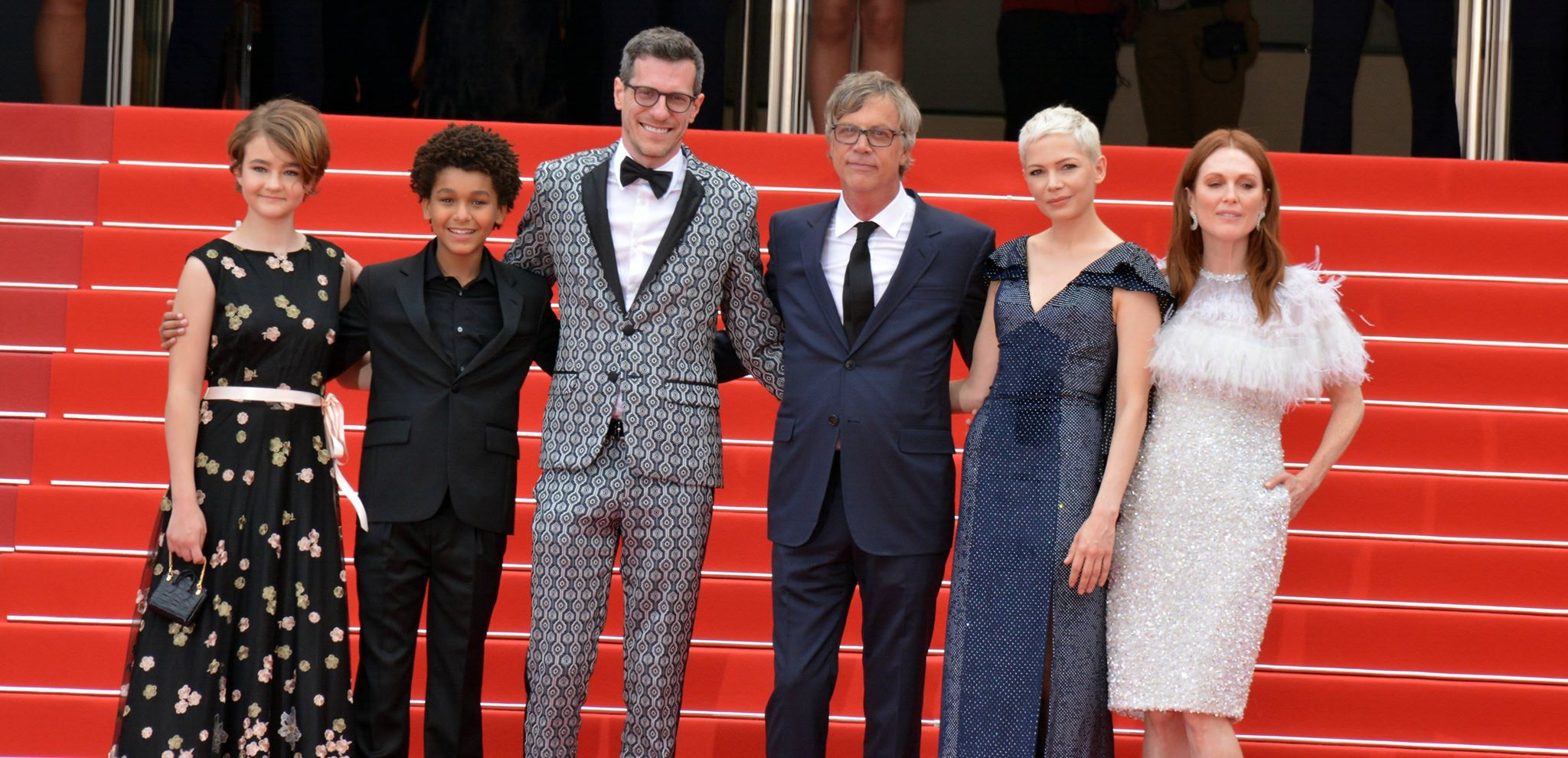 Presentation ot the film "Wonderstruck" at the Cannes Film Festival